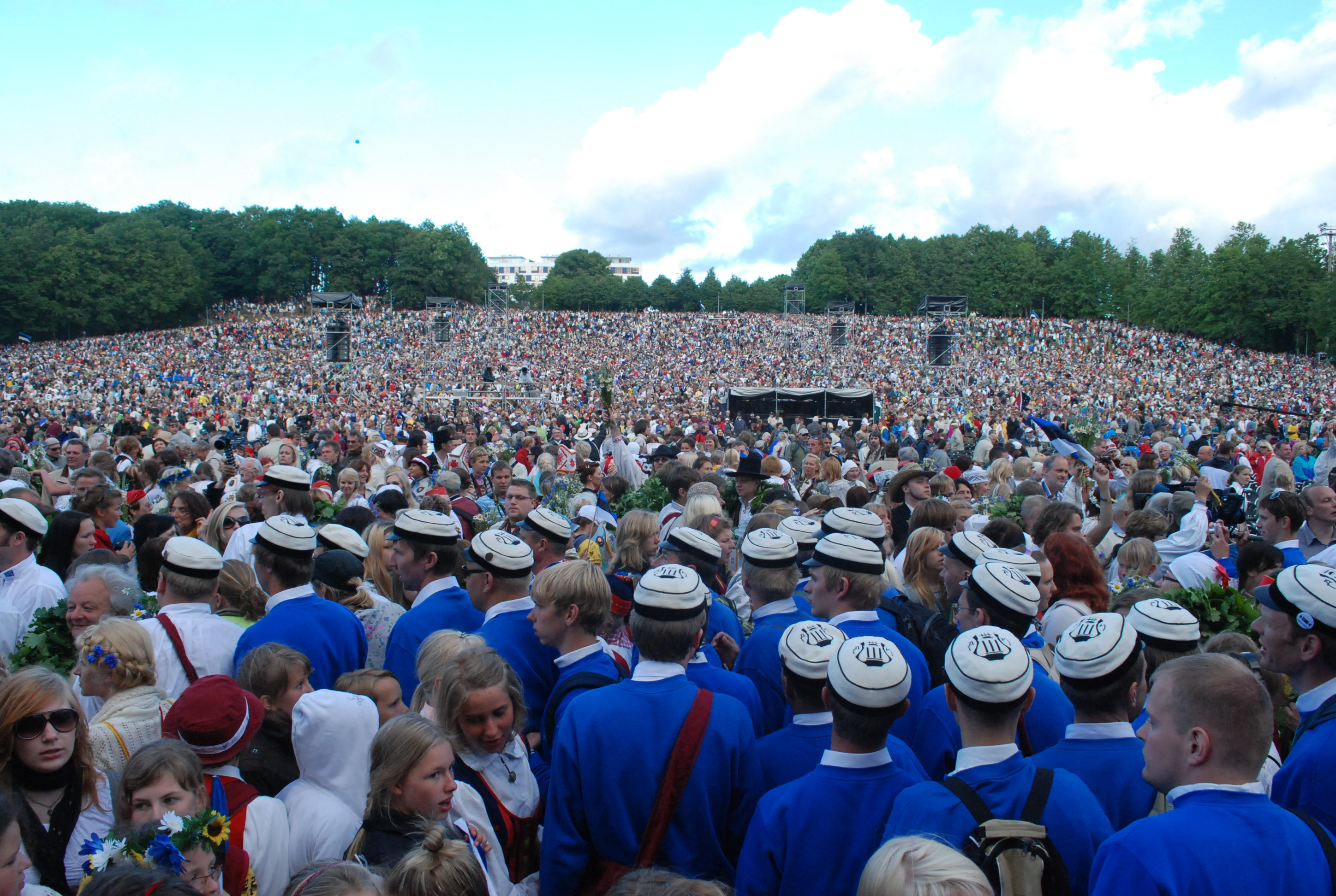 25th Estonian Song Celebration.